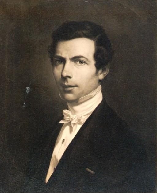 Aristide Cavaillé-Coll at age 25